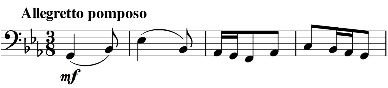 Camille Saint-Saens, Carnival of Animals, Elephant, Beginning Midsection